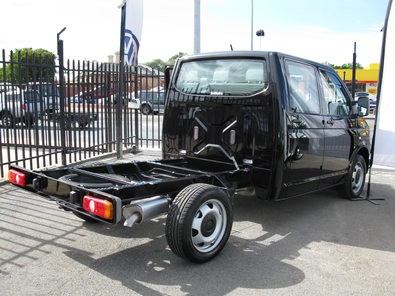 Volkswagen 2.0 BiTDI 132kW from a Transporter Double Cab Chassis in Australia